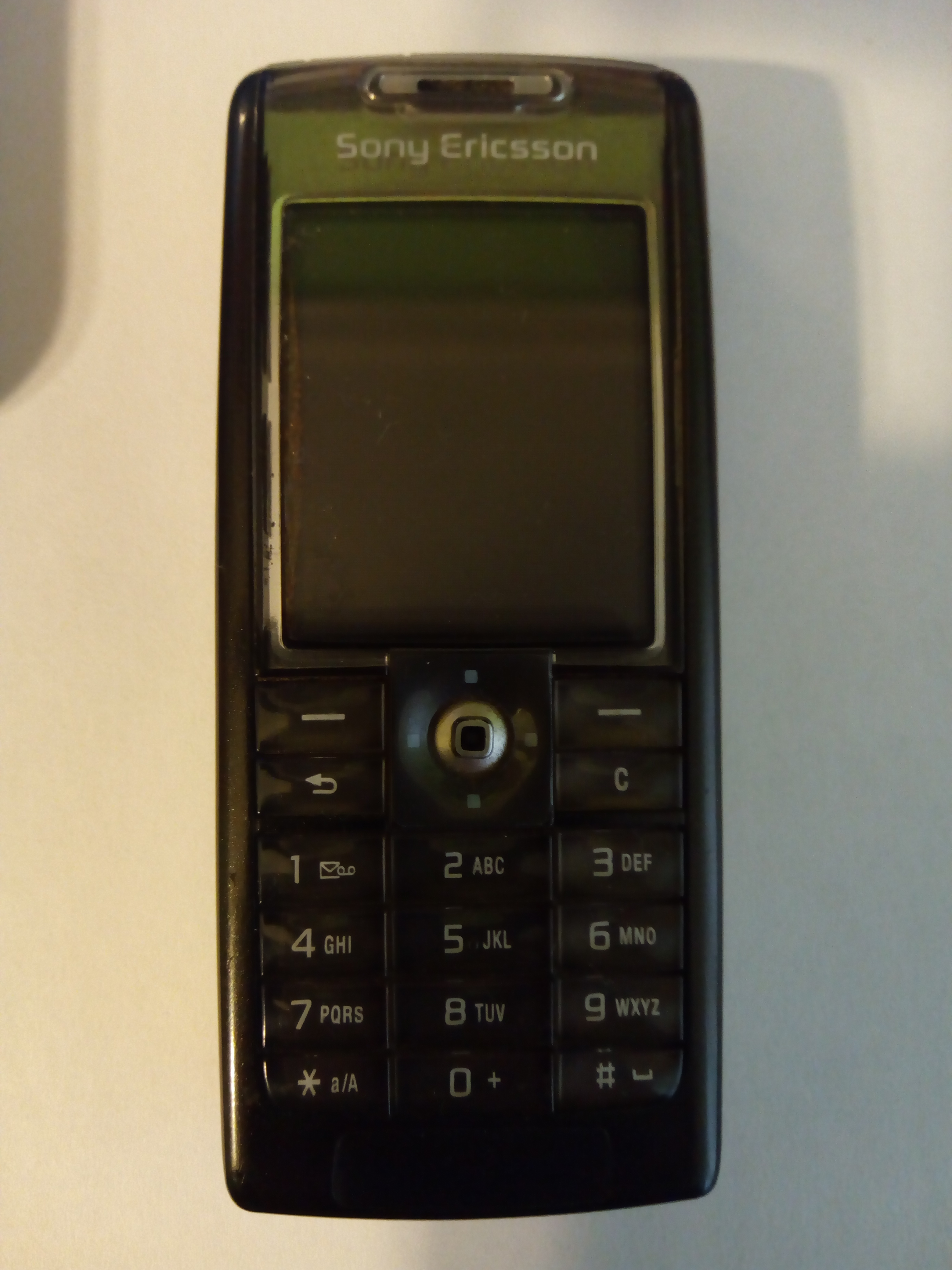 Sony Ericsson T630